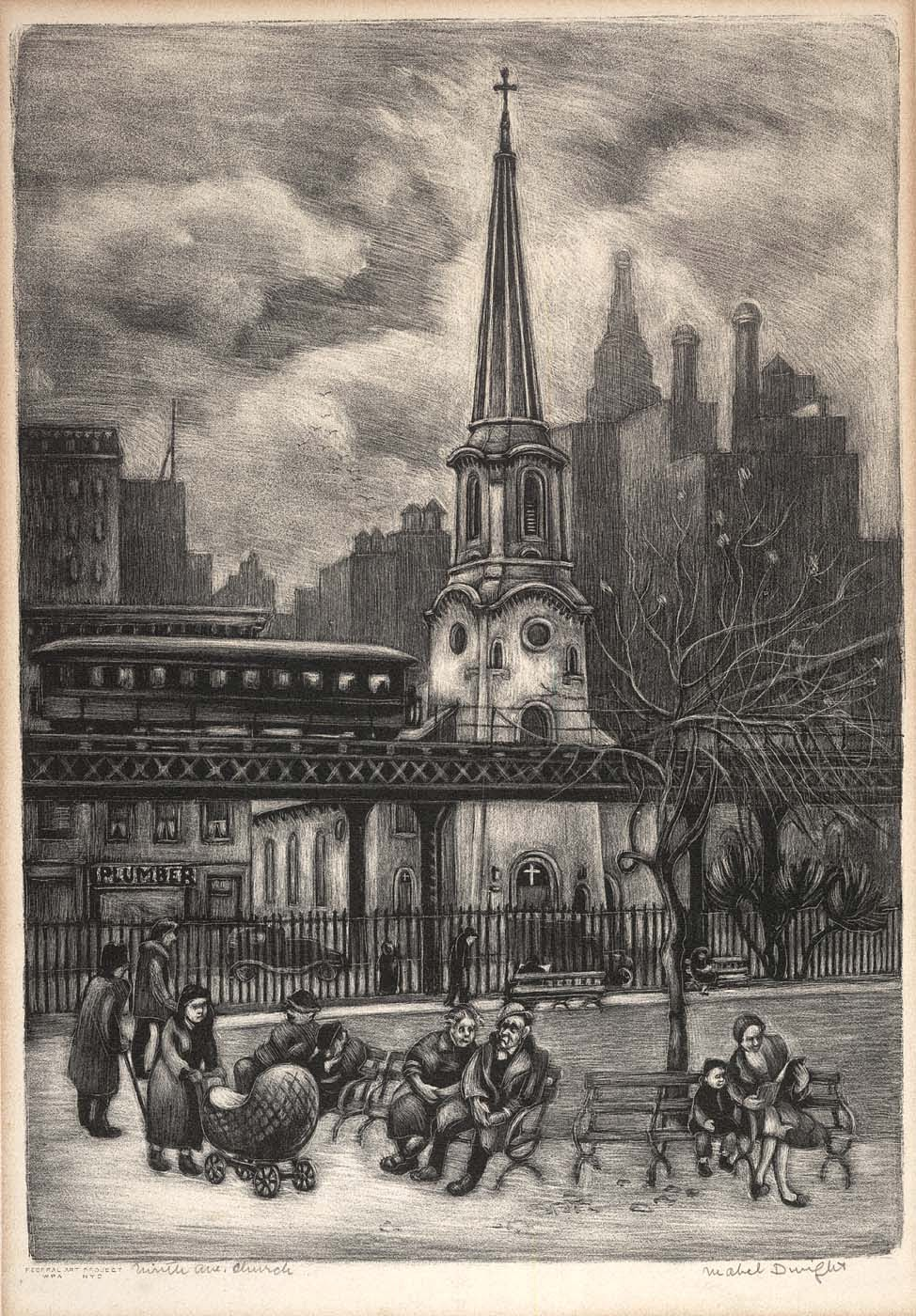 Mabel Dwight, Ninth Avenue Church, lithograph on stone, 36 x 25.4 cm, edition of 25 printed by the Federal Art Project